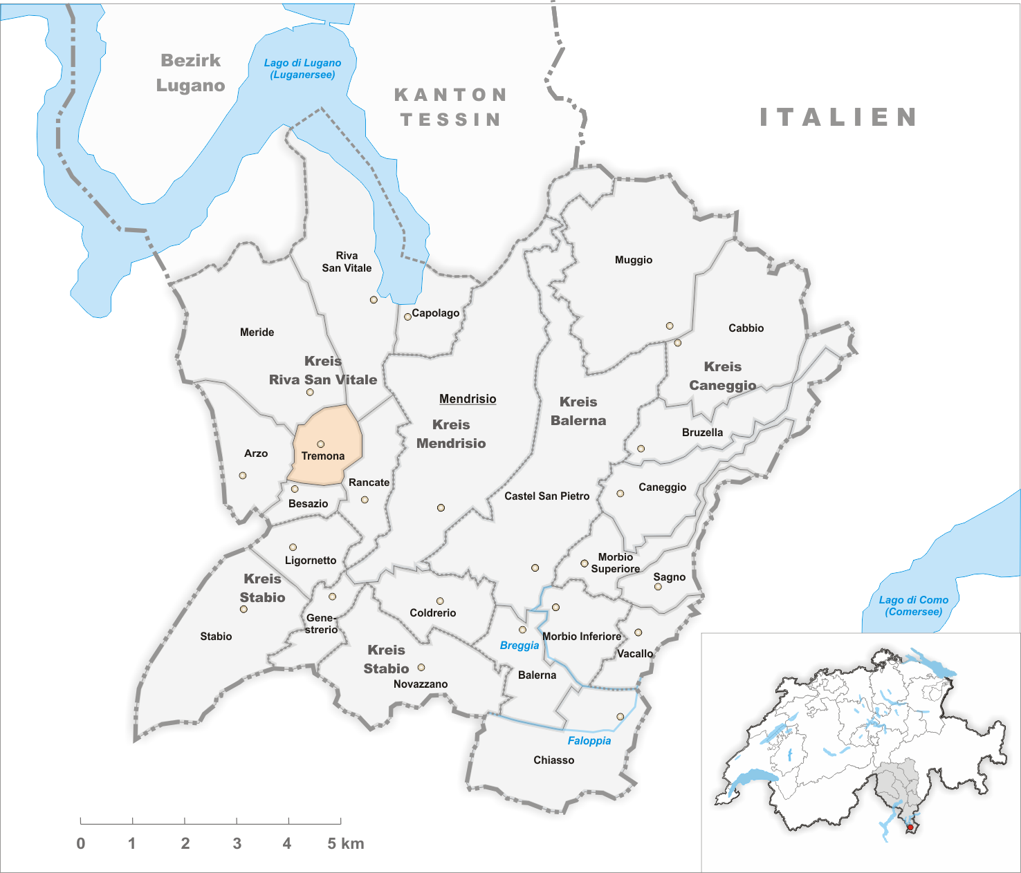 Municipality Tremona